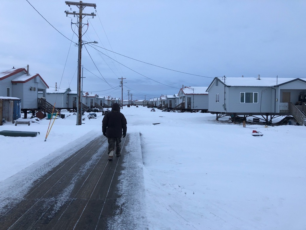 The area of Kongiganak, Alaska that locals refer to simply as "housing"